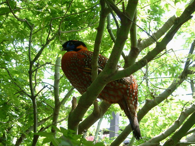 Unidentified bird species in Zoorasia.